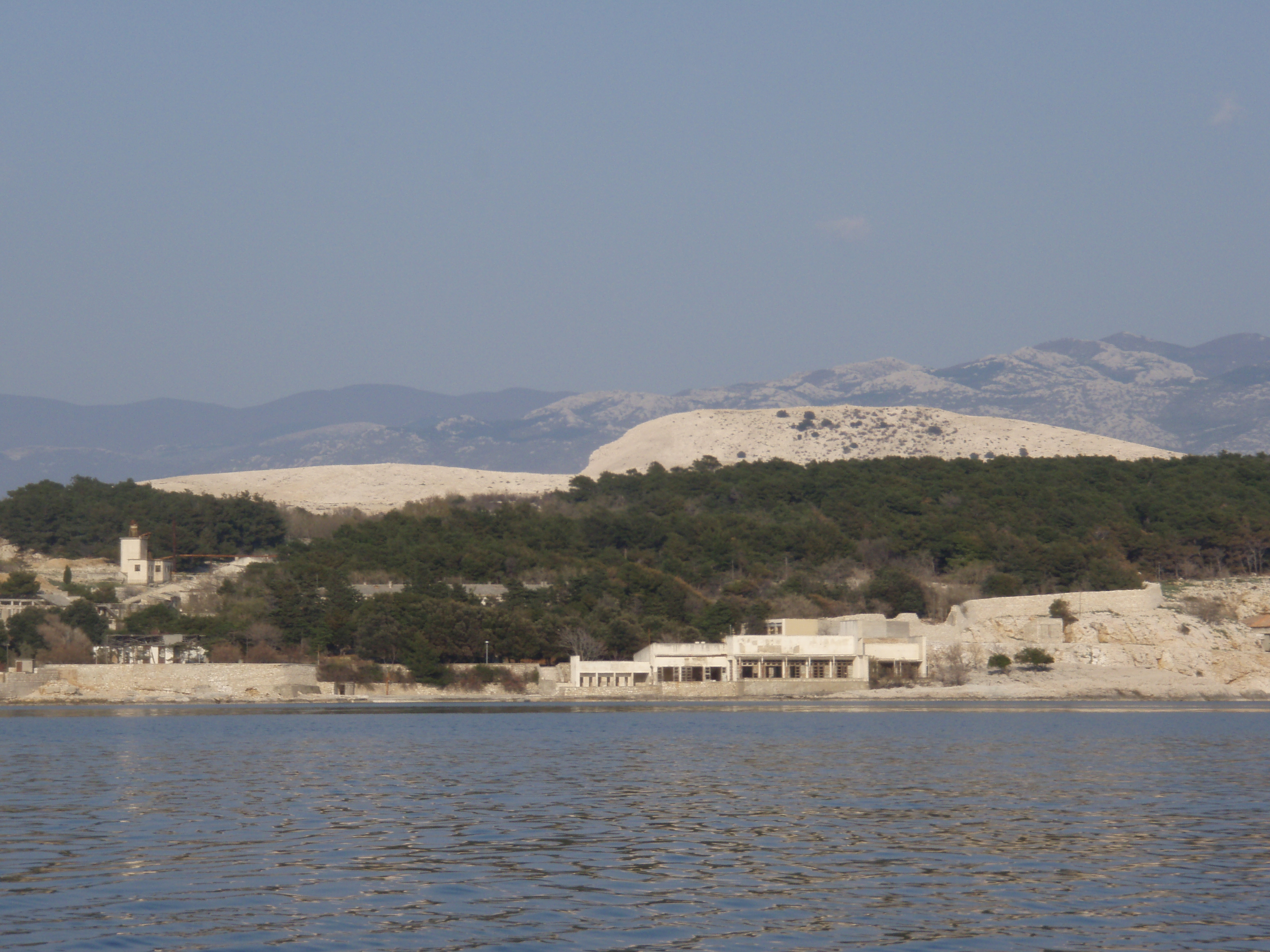 Coast of the Grgur island